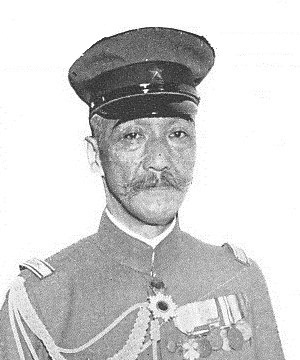 Kenkichi Ueda Close-up